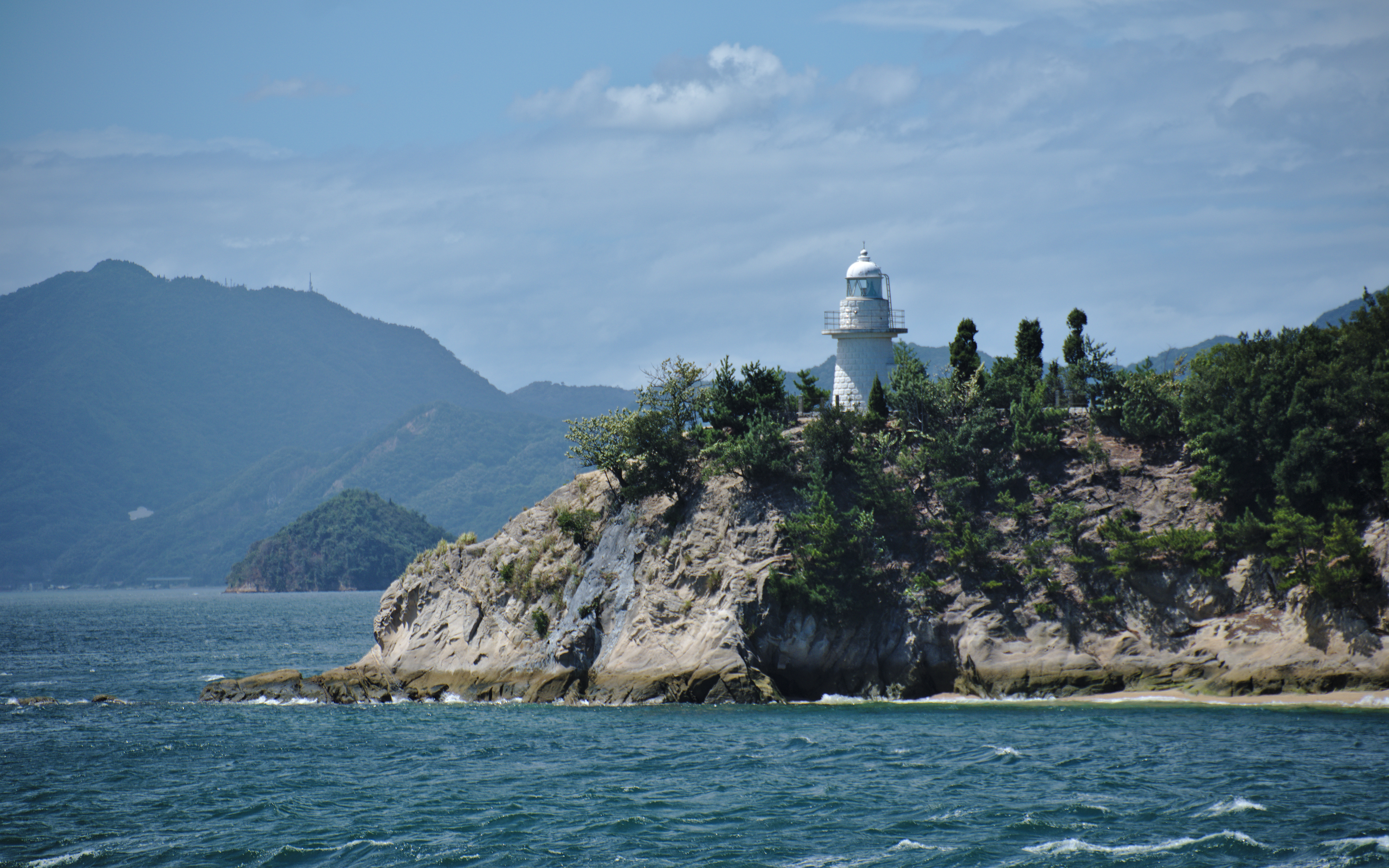 Lighthouse in Okunoshima, Japan, August 2018.